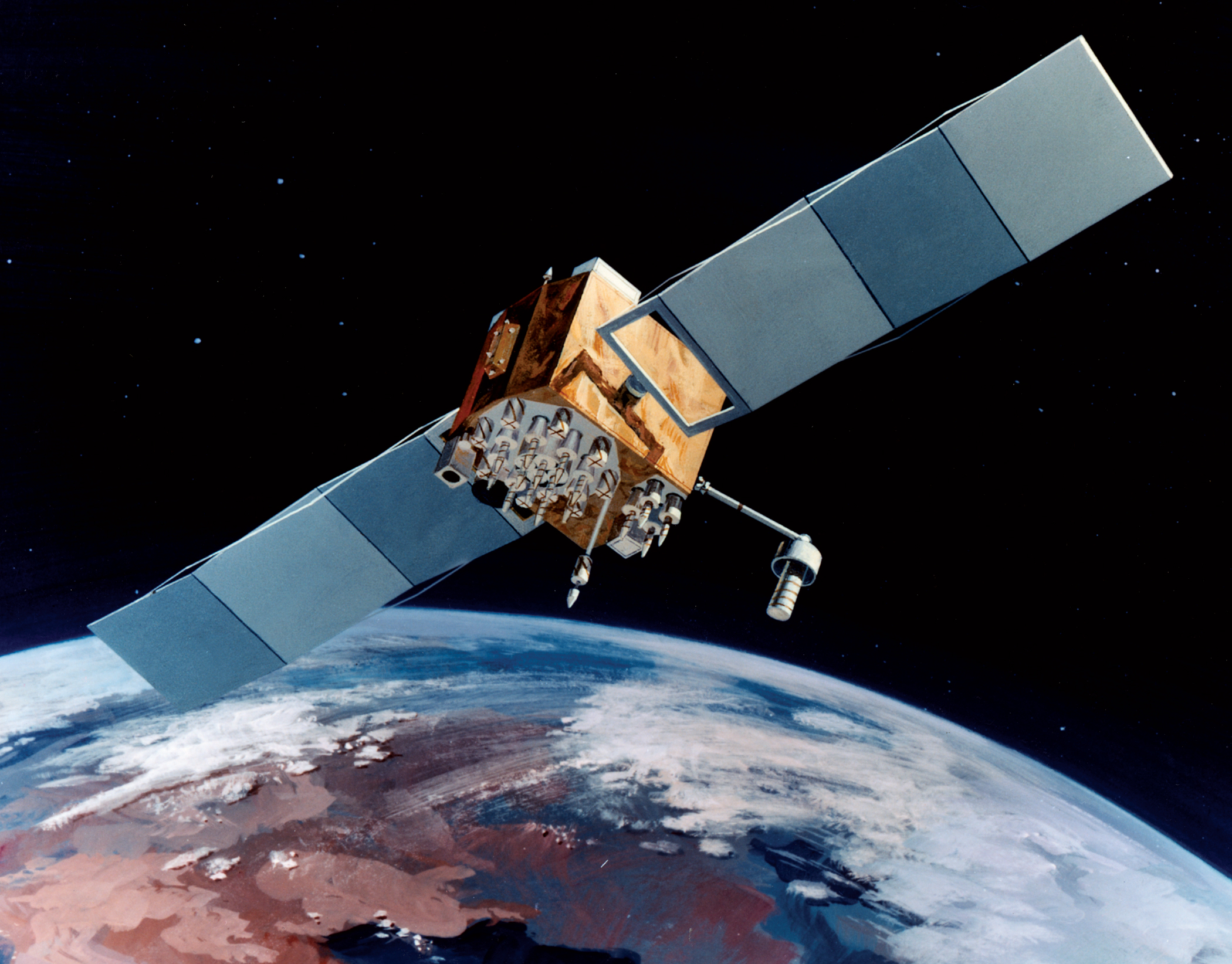 Navstar-2F satellite of the Global Positioning System (GPS)